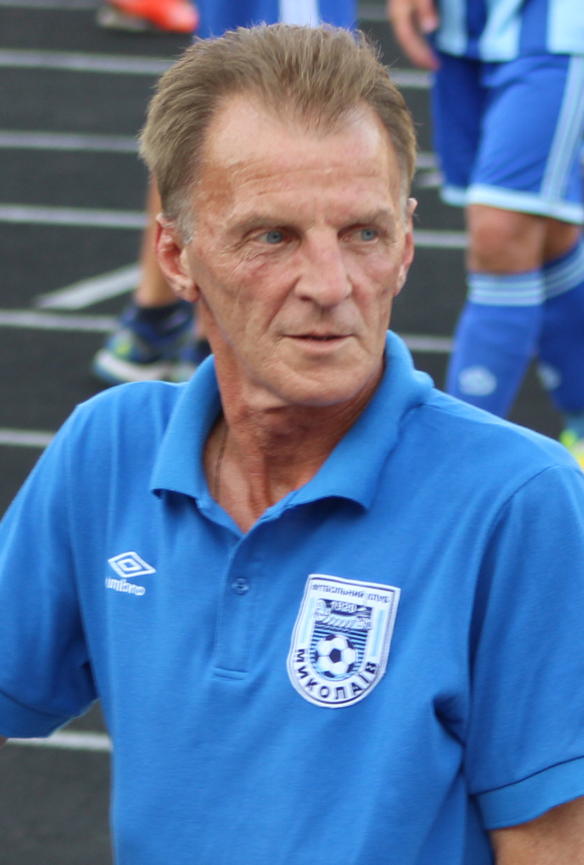 Juriy Smagin